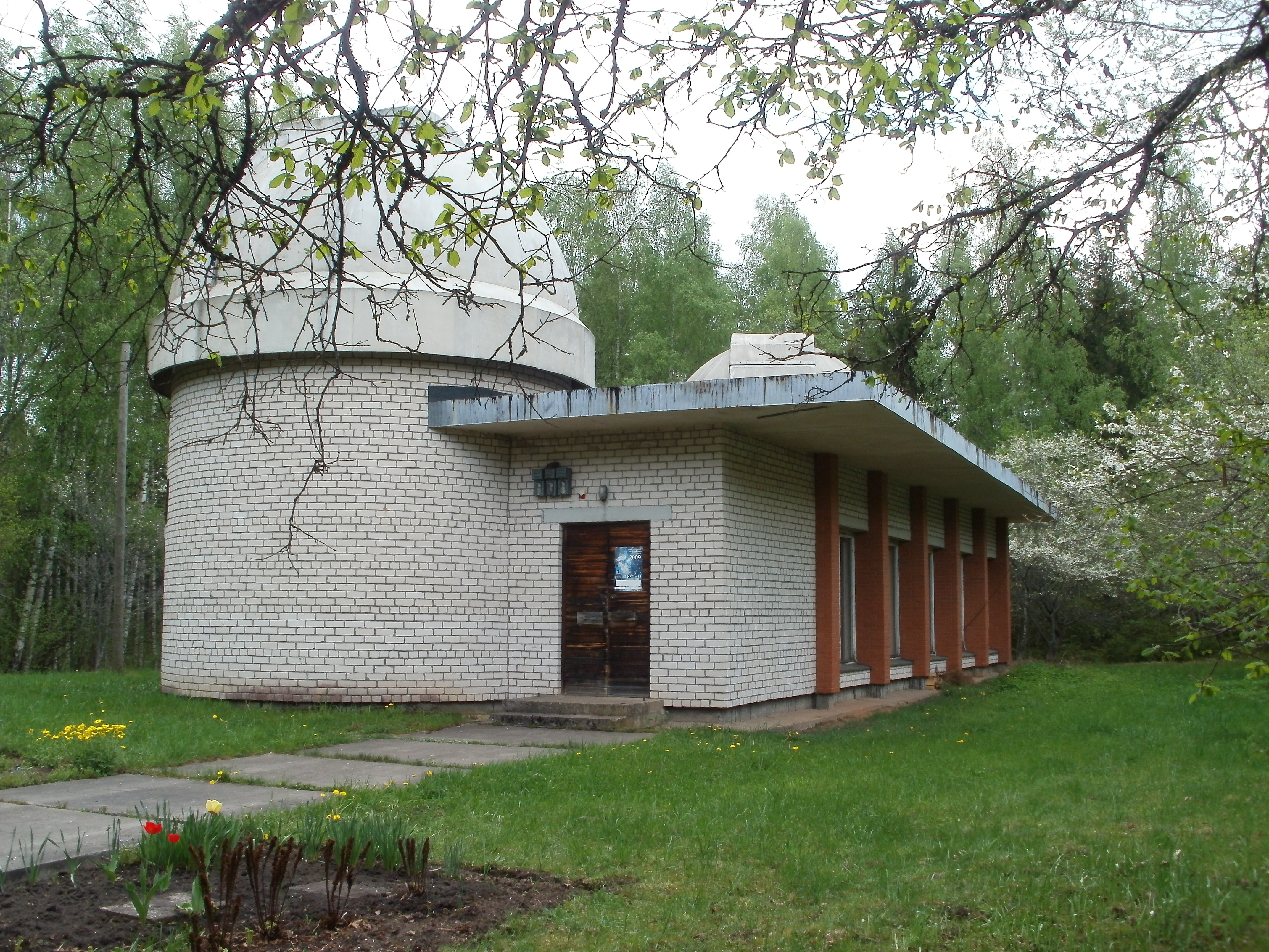 Observatory Baldone, near Riga, Latvia